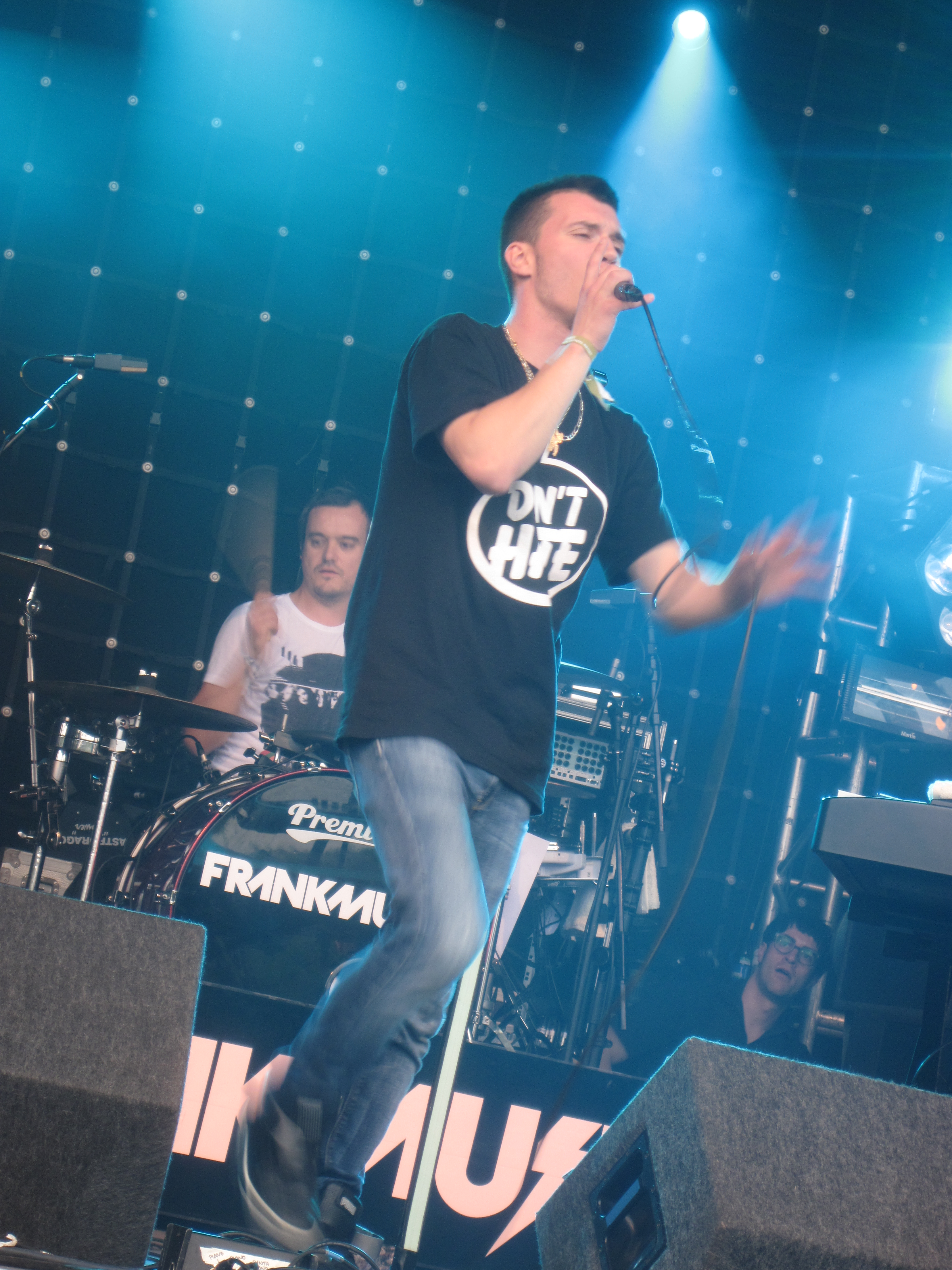 Taken in South Hackney, London. Taken with a Canon Digital IXUS 980 IS.